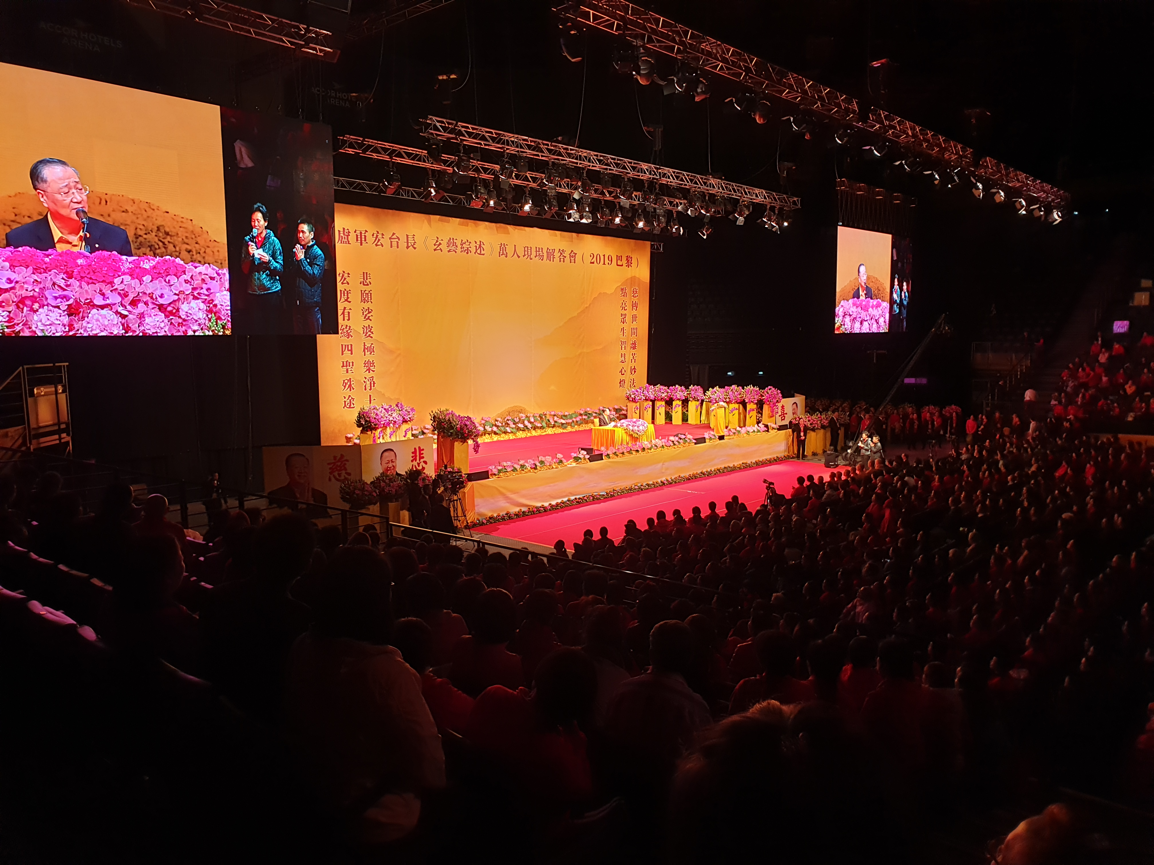 Jun Hong Lu giving a conference at Paris-Bercy